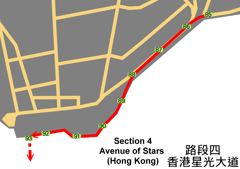 2008 Summer Olympic Torch Relay in Hong Kong, Section 4, Avenue of Stars (Hong Kong)